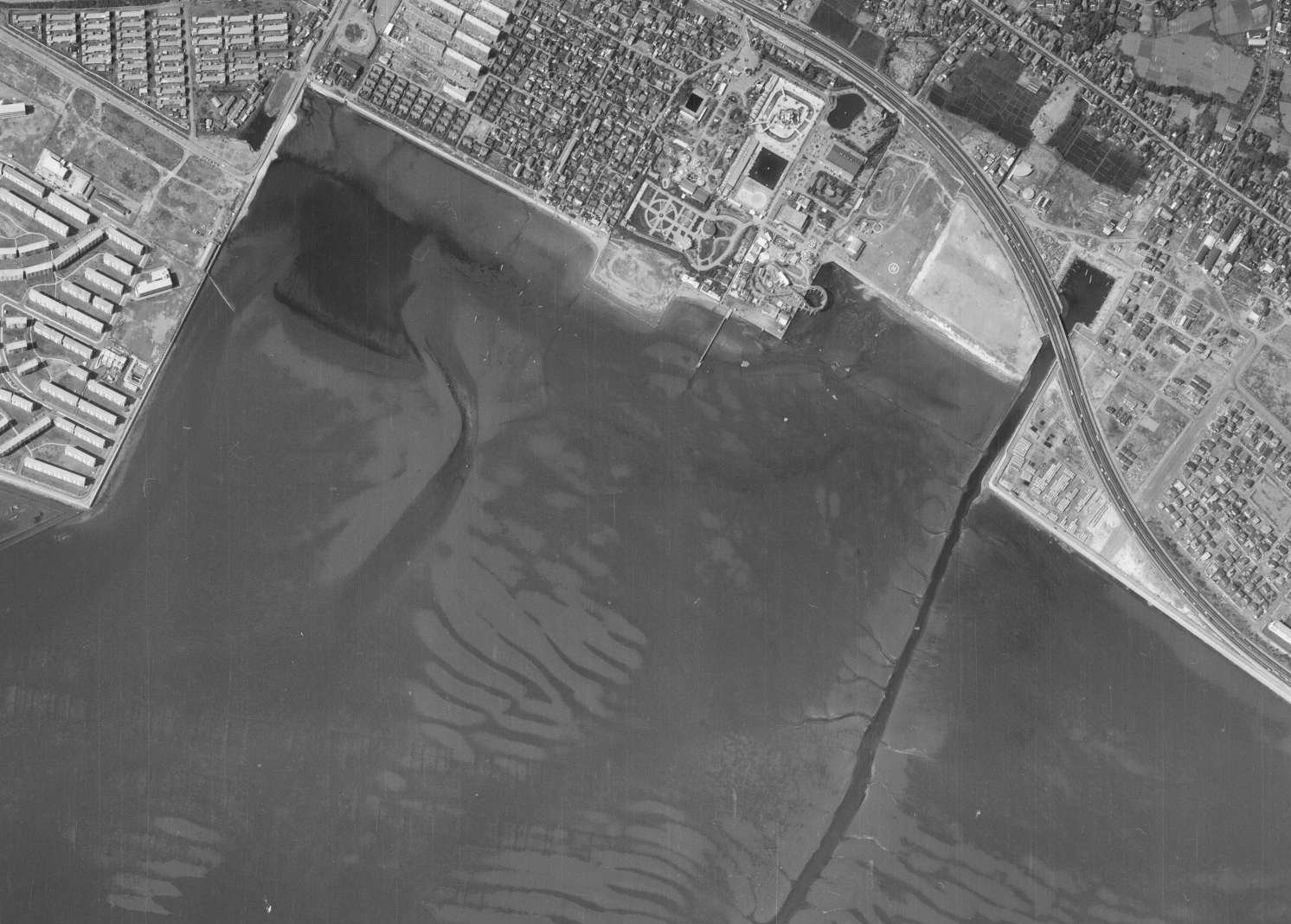 Around Yatsu-Higata taken in 1970